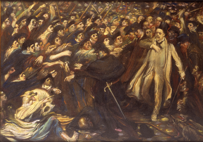 Zola, Insulted by Henry de Groux 1898, Oil on canvas